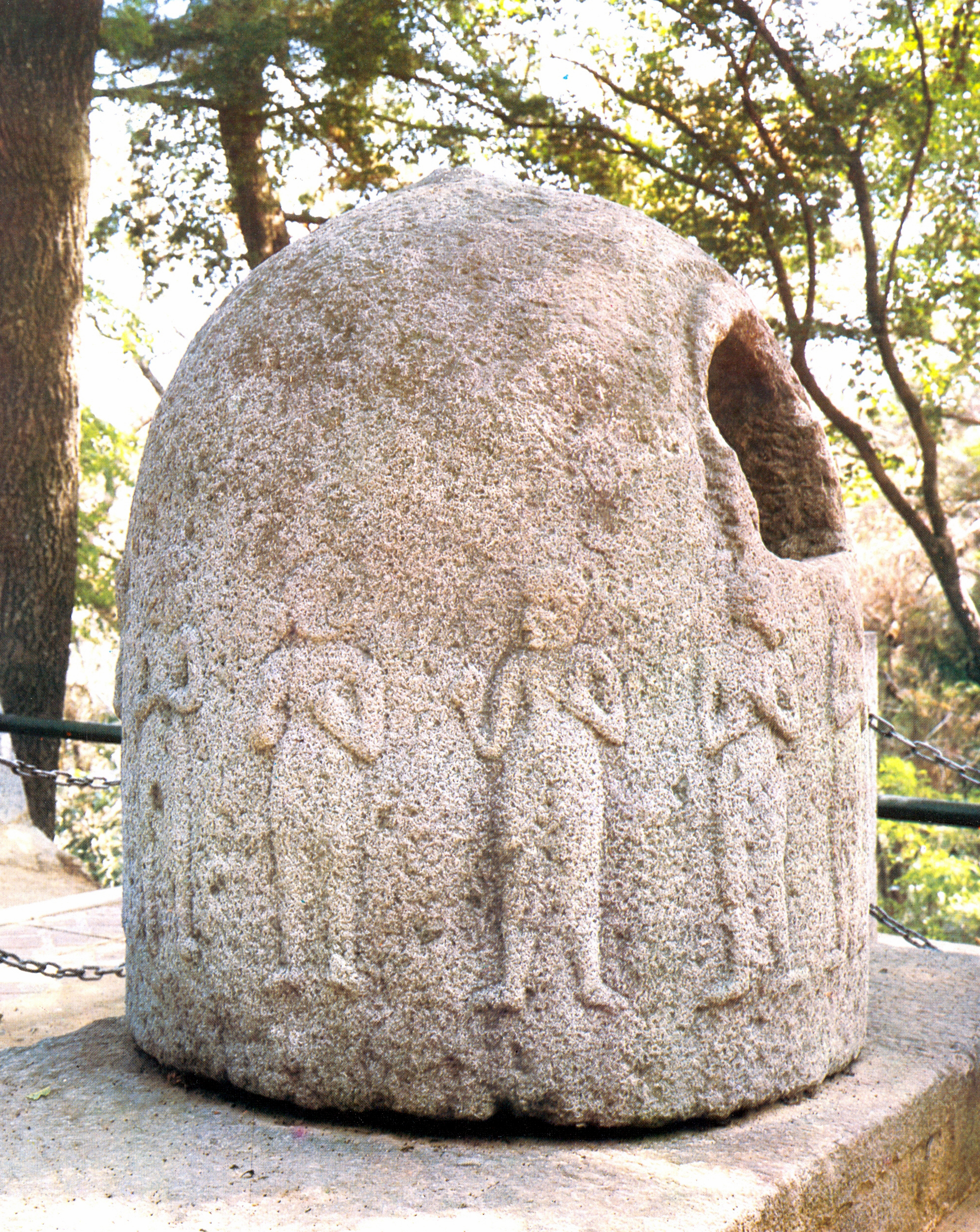 Stone Stupa at Taehwasa Temple site in Ulsan, Korea